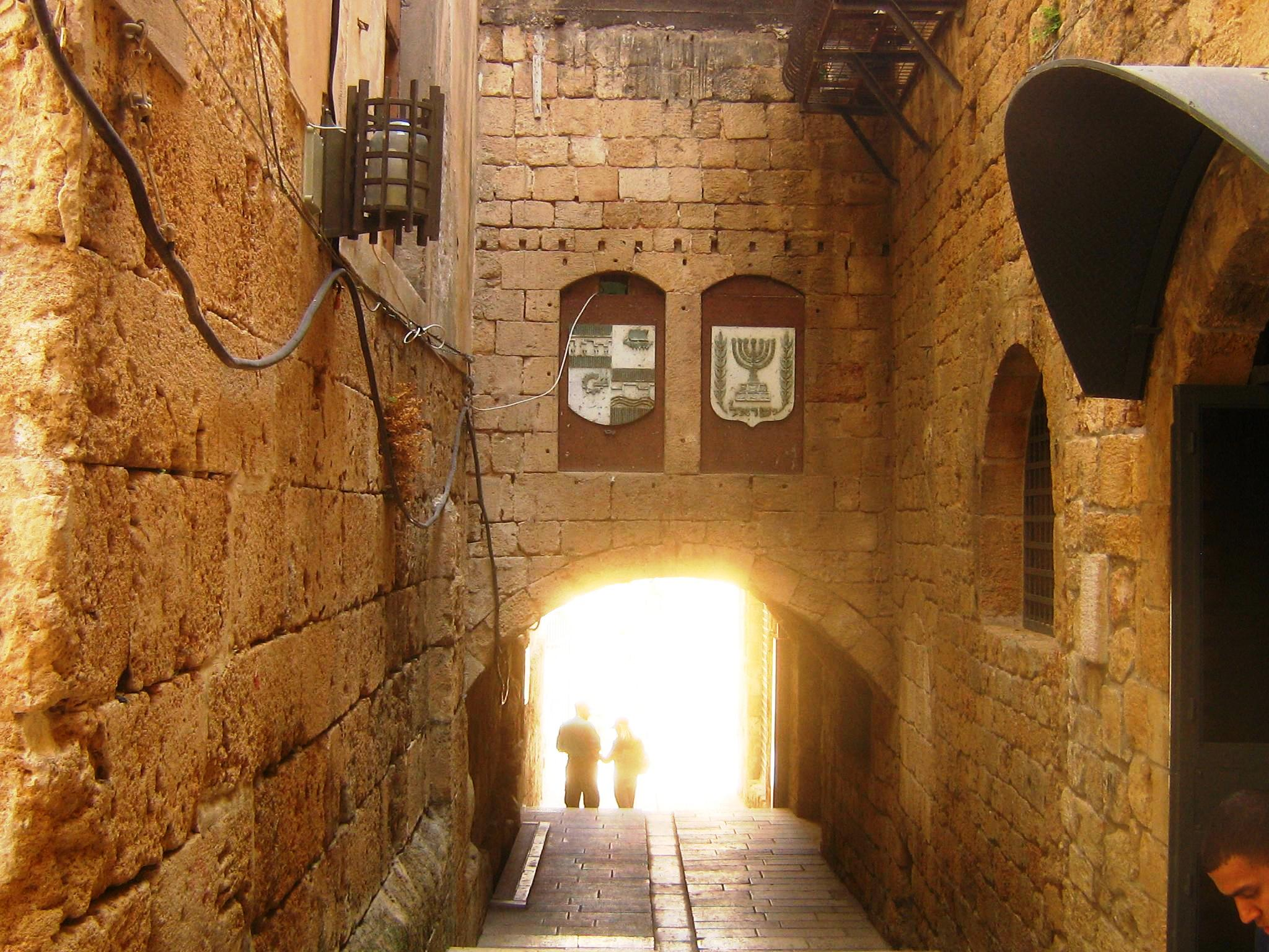 Acre Alley